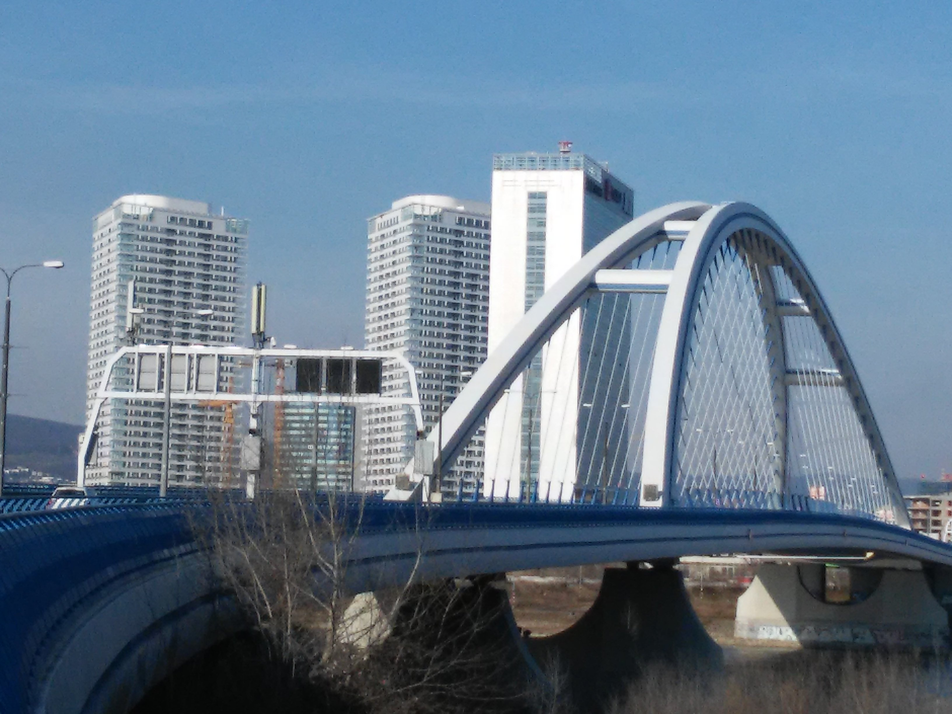 Bratislava high-rise district